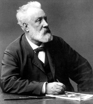 Portrait of Jules Verne